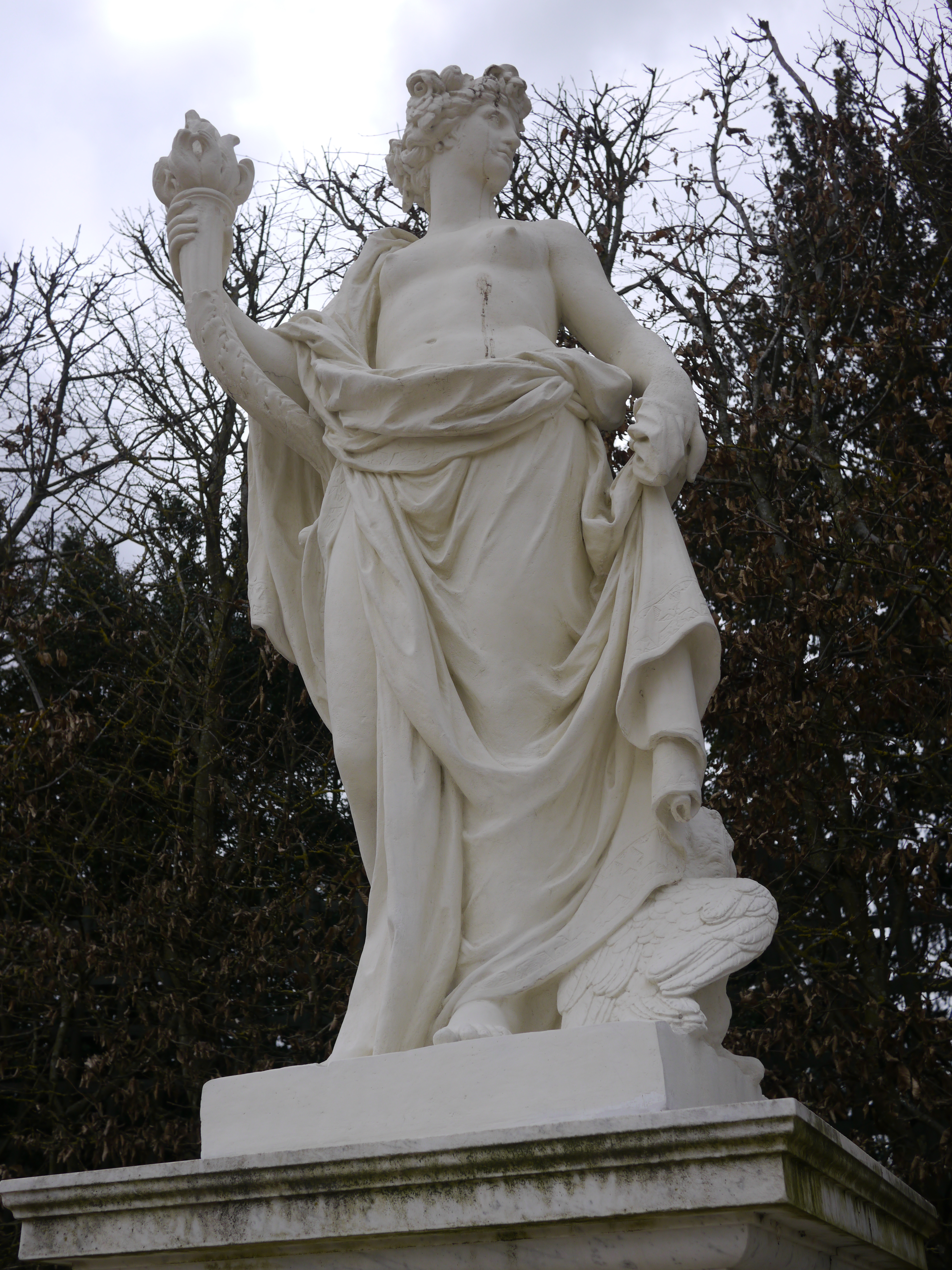 Photograph taken at the Park of the 'Château de Versailles' in France.